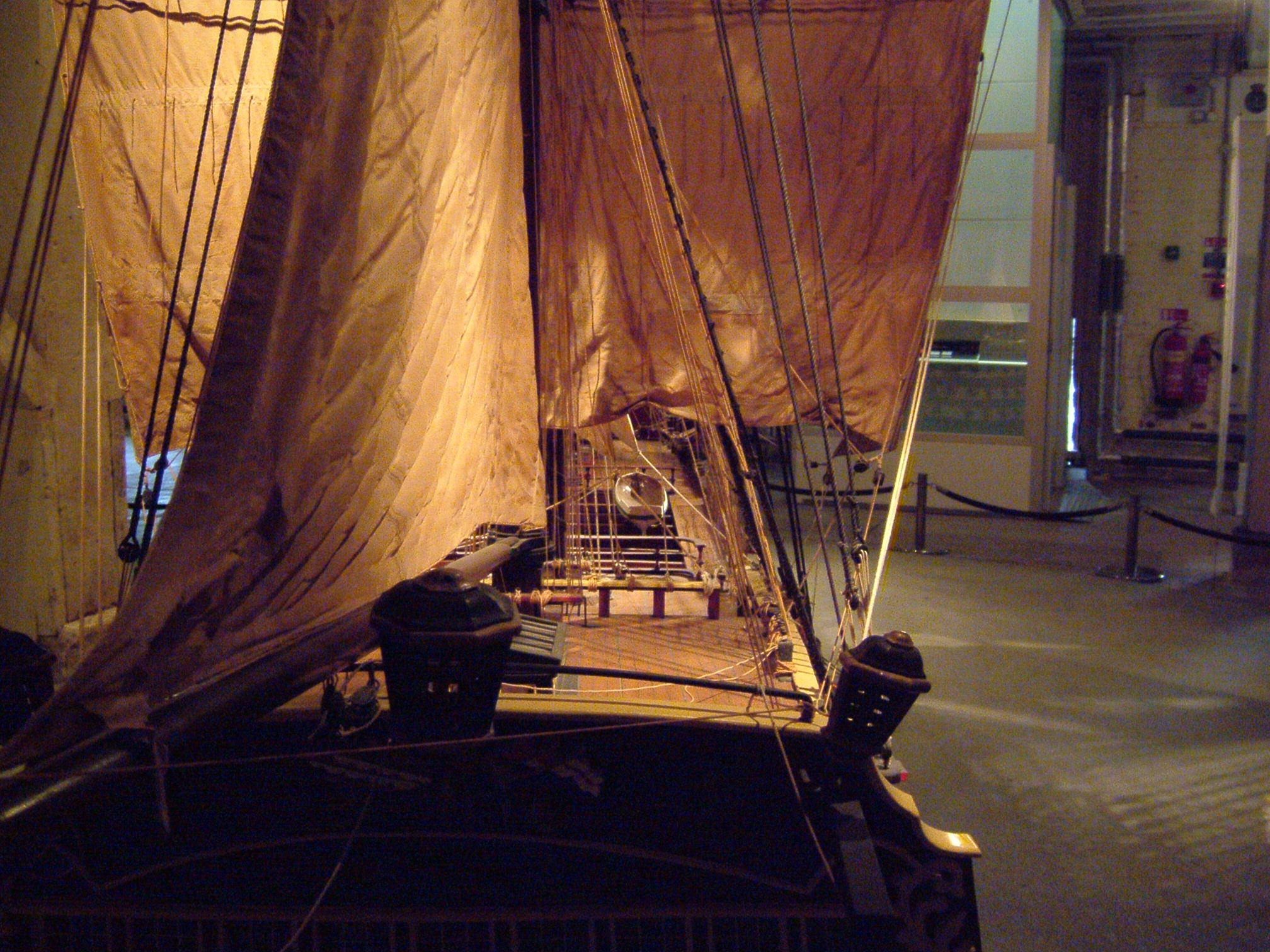 Chatham Dockyard, Kent,England has the finest collection of 18th and 19th century naval dockyard buildings many of which are scheduled as ancient monuments. HMS Victory made for the 1941 film That Hamilton Woman starring Laurence Olivier and Vivien Leigh. Attrib: Clem Rutter, Rochester